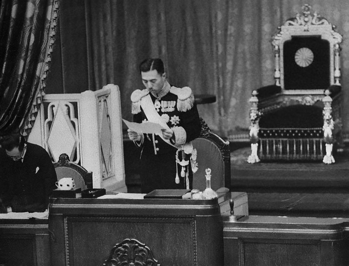 Fumimaro Konoe (近衛文麿, 1891–1945, in office 1937–39 and 1940–41), President of the House of Peers, reading an imperial rescript at the opening of the Diet. 1936.